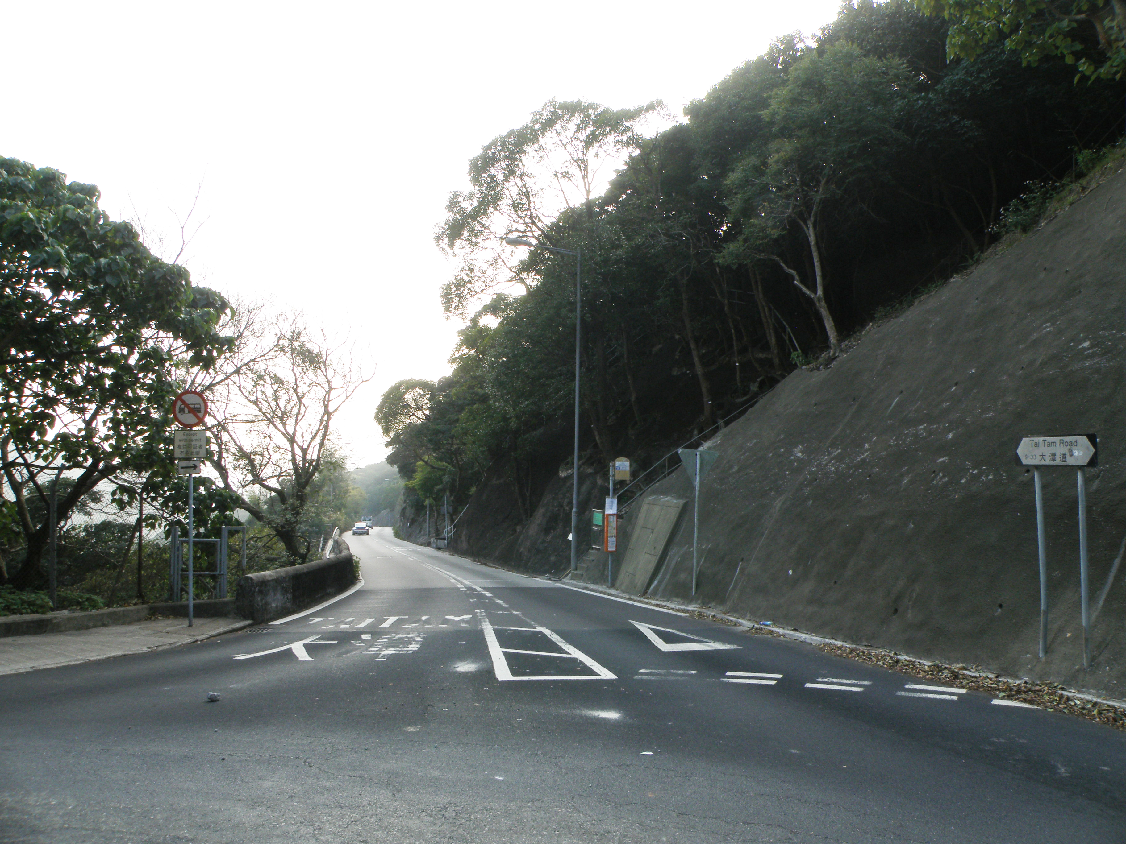 Tai Tam Road in Chai Wan, Hong Kong.